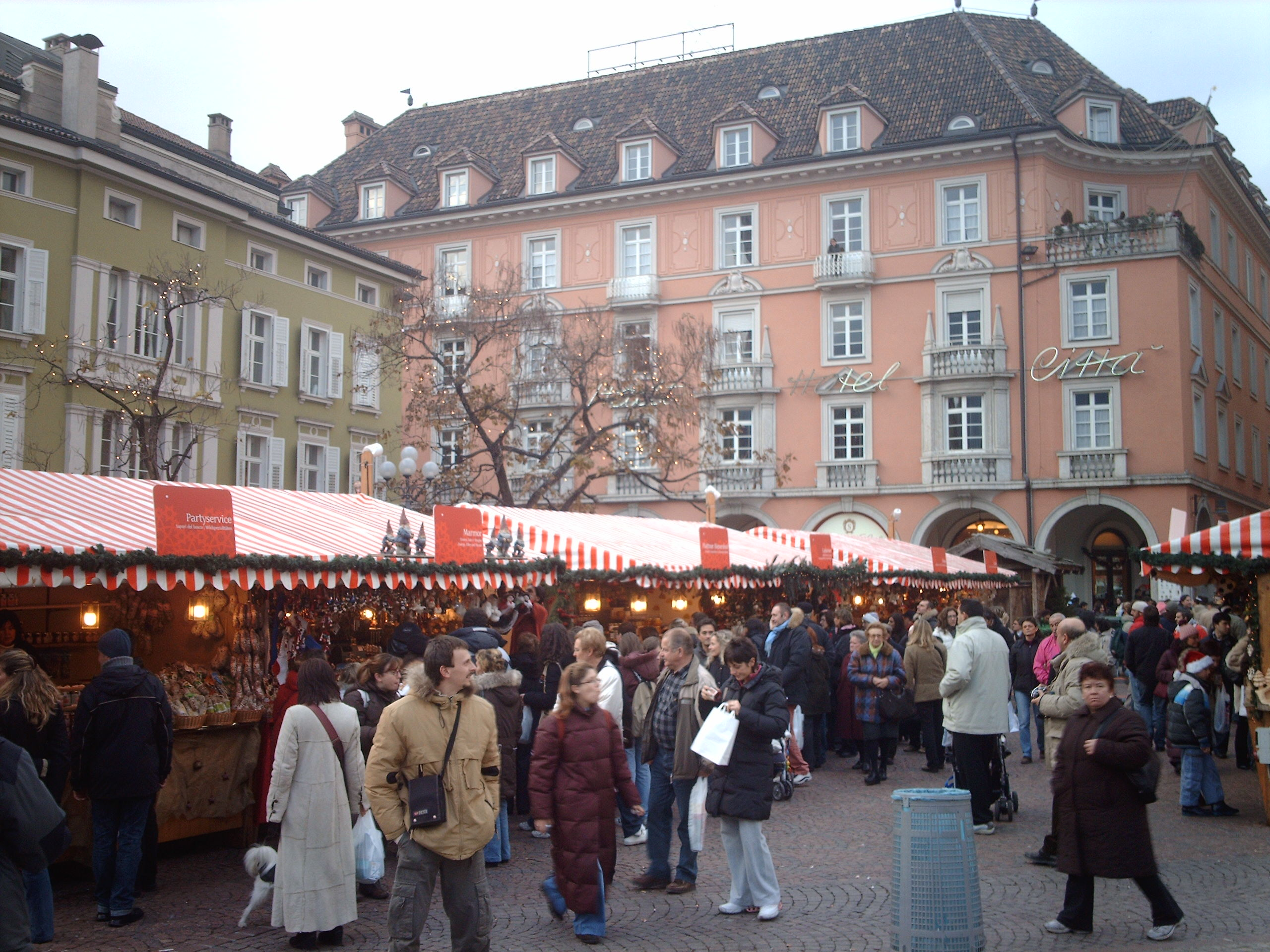 Picture by Skafa